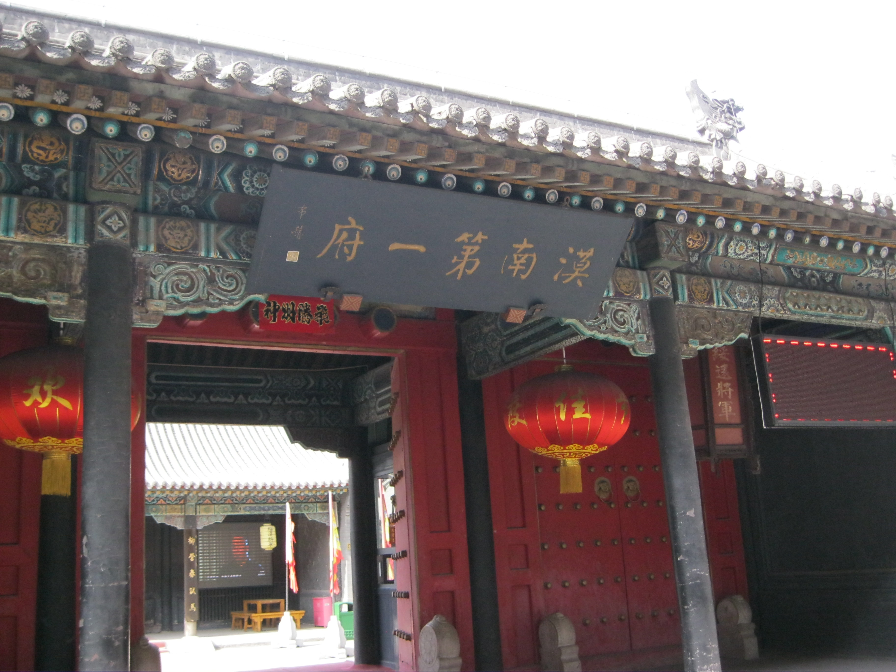 The main entrance of the Governor building